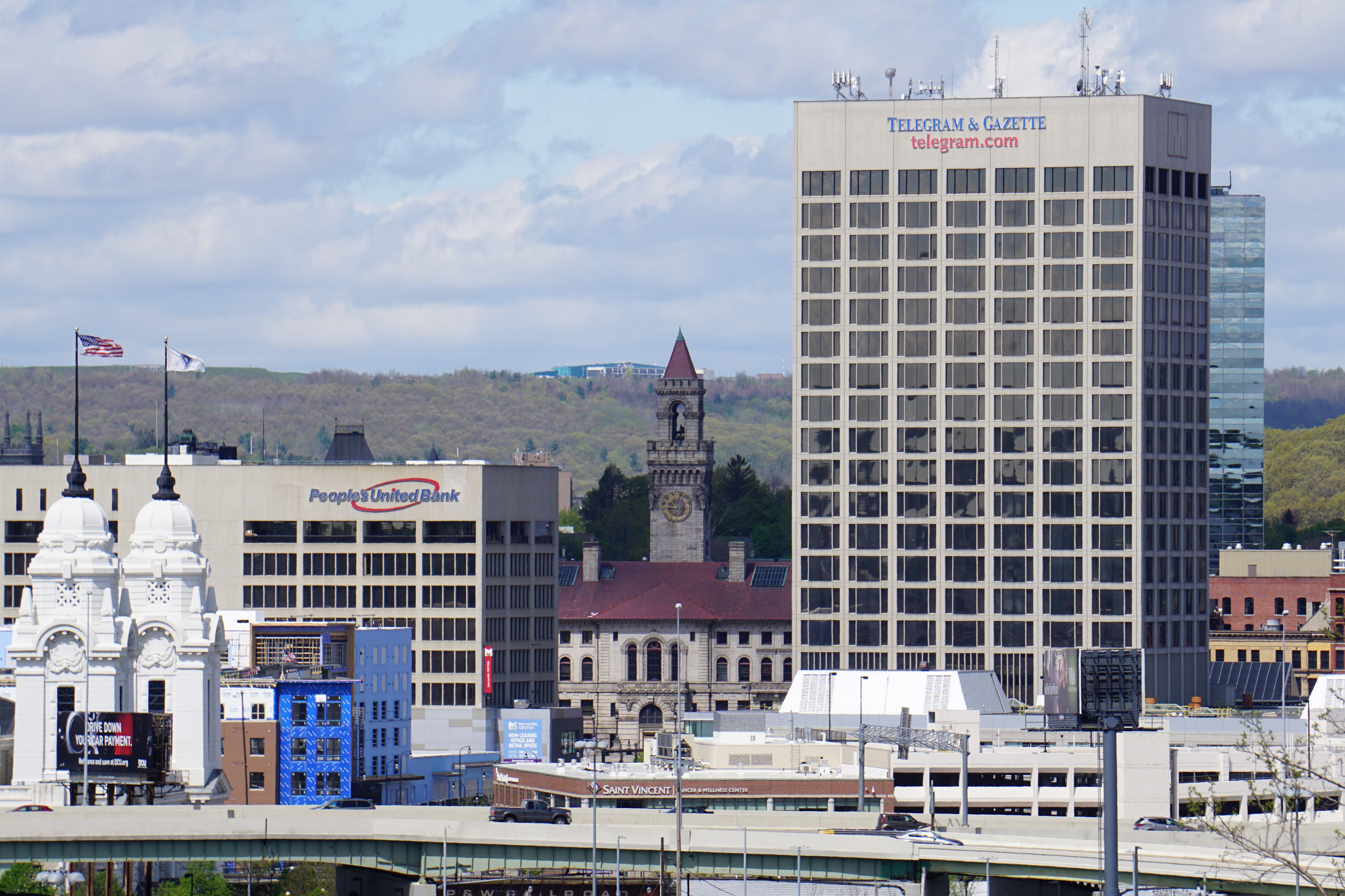 Photo of Downtown Worcester, Massachusetts (USA) on 7th of May 2017, with Worcester Regional Airport in the background